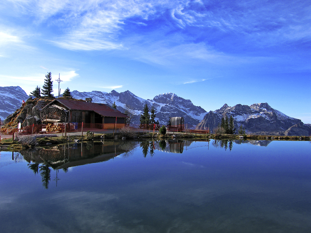 Härzlisee, above Engelberg, Switzerland